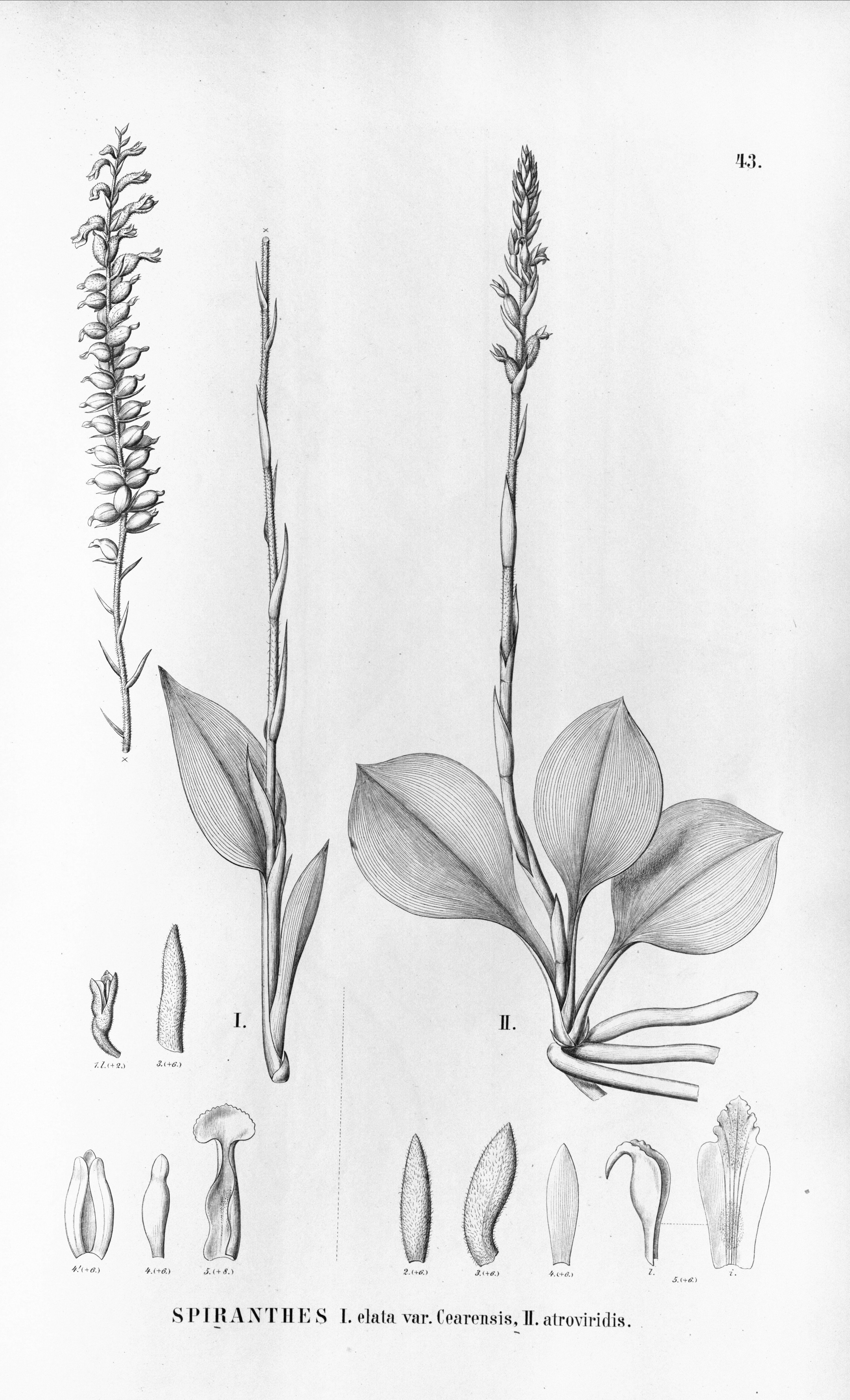 Illustration of: I. Cyclopogon cearensis (as syn. Spiranthes elata var. cearensis) II. Mesadenella atroviridis (as syn. Spiranthes atroviridis)